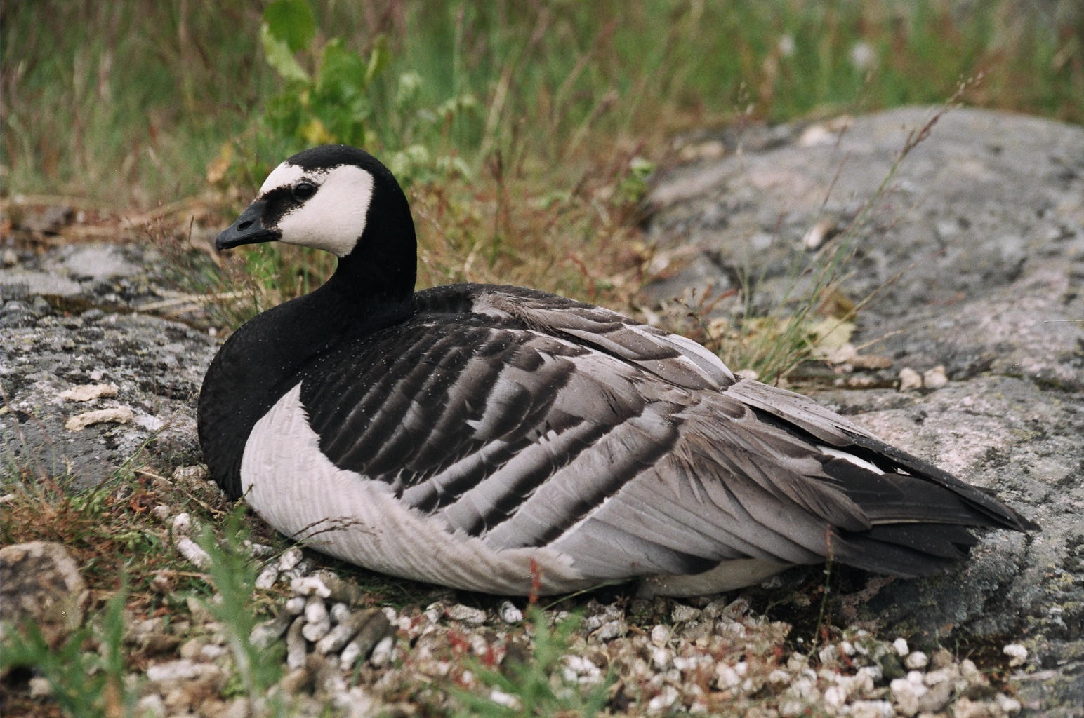 Barnacle Goose in Korkeasaari Zoo, Helsinki, Finland. Barnacle Gooses are not part of exhibition but they like to live there.